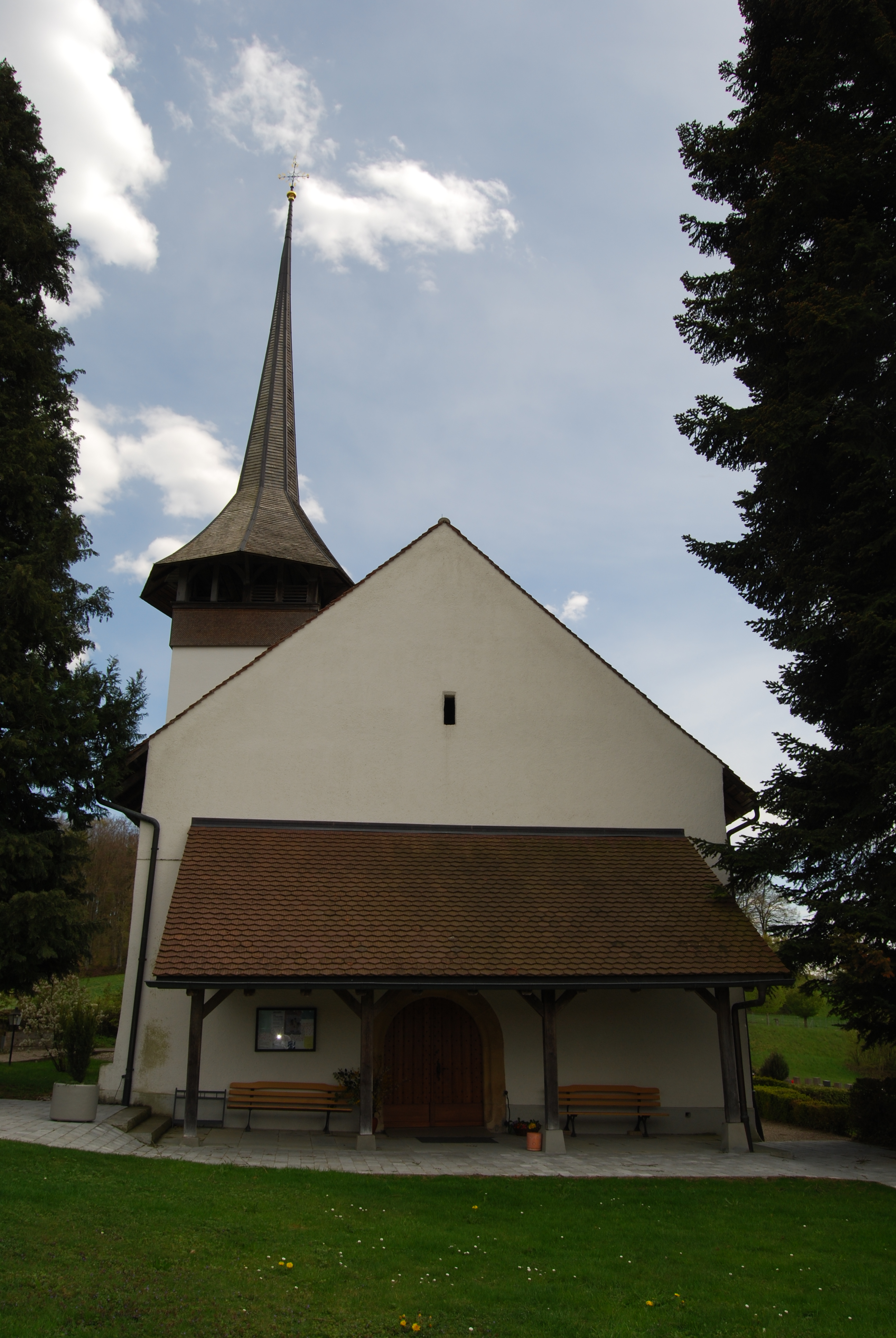 Protestant Church of Ferenbalm, canton of Bern, Switzerland